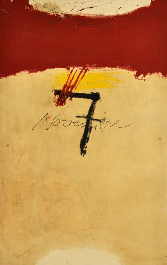 Antoni Tàpies. '7 de novembre' (1971) © Comissió Tàpies / Vegap © Photography: Fundació Antoni Tàpies, Barcelona